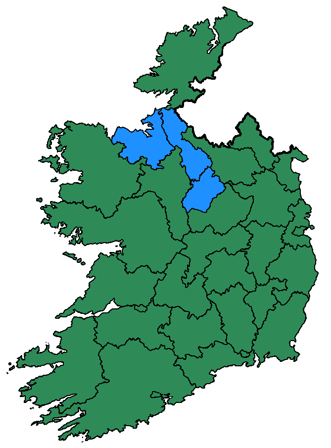 Results of the Irish presidential election, 1945. Seán Thomas O'Kelly Seán Mac Eoin